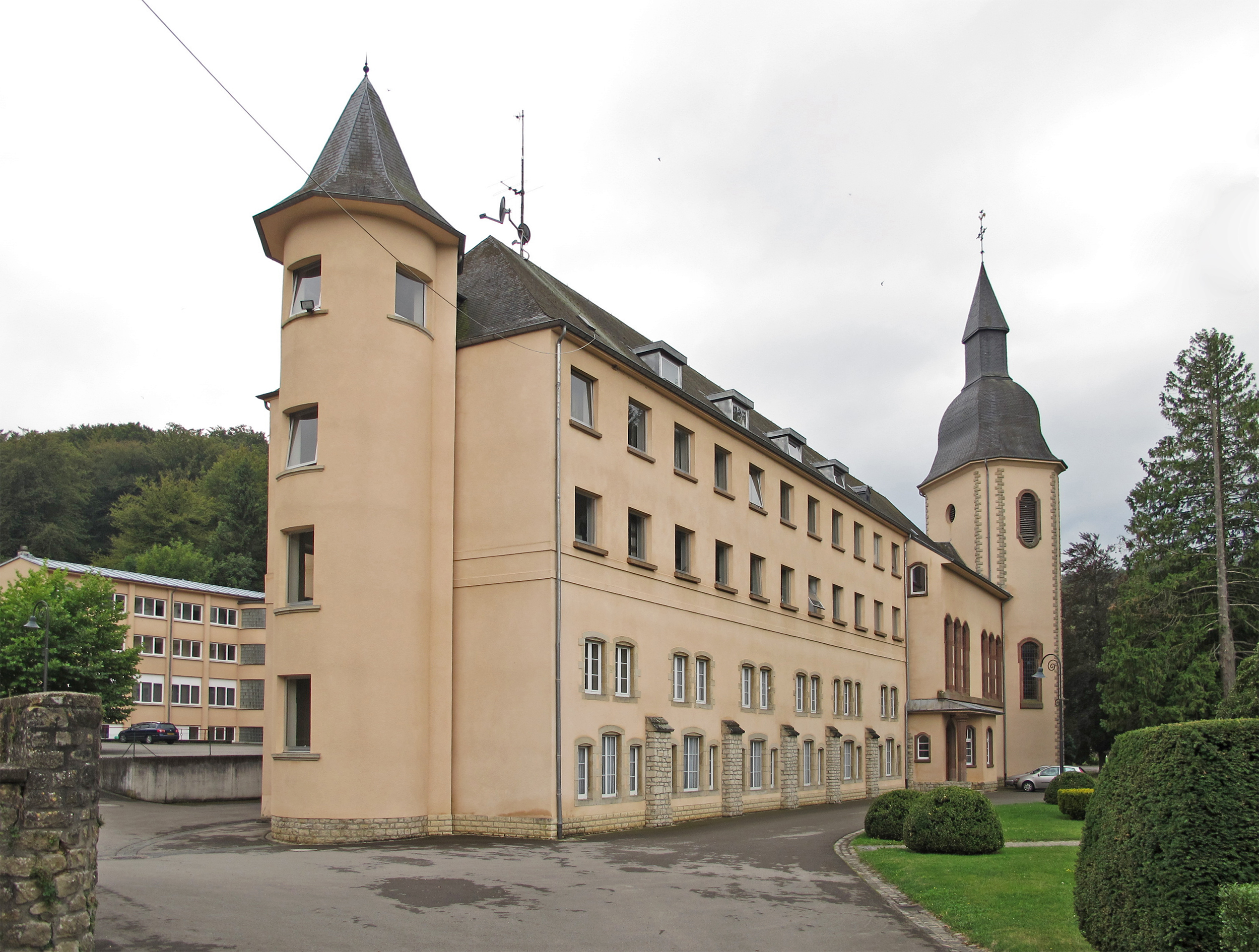 Buildings of the former École Apostolique in Clairefontaine